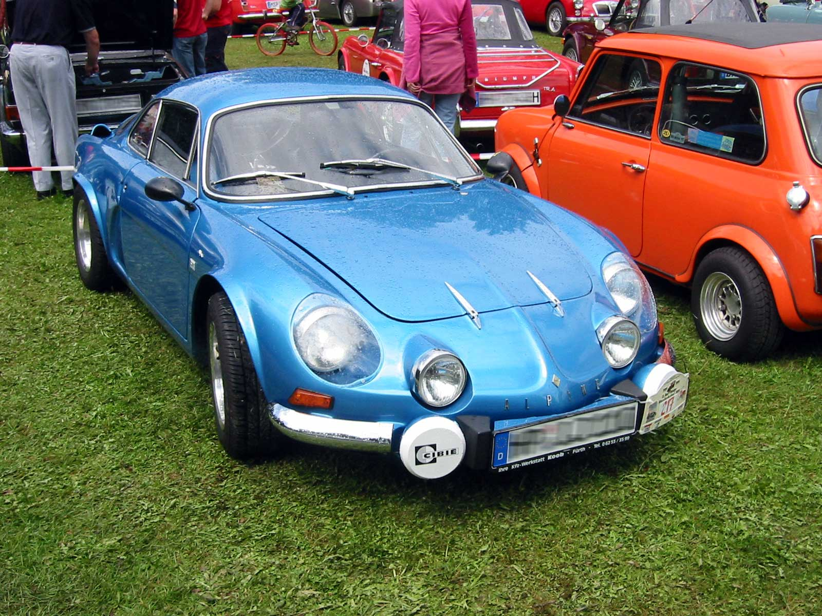 Renault Alpine A110 Berlinette 1600 SX